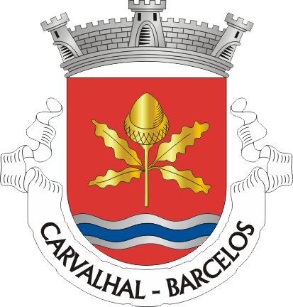 Crest of Carvalhal, a parish in the municipality of Barcelos (Portugal)